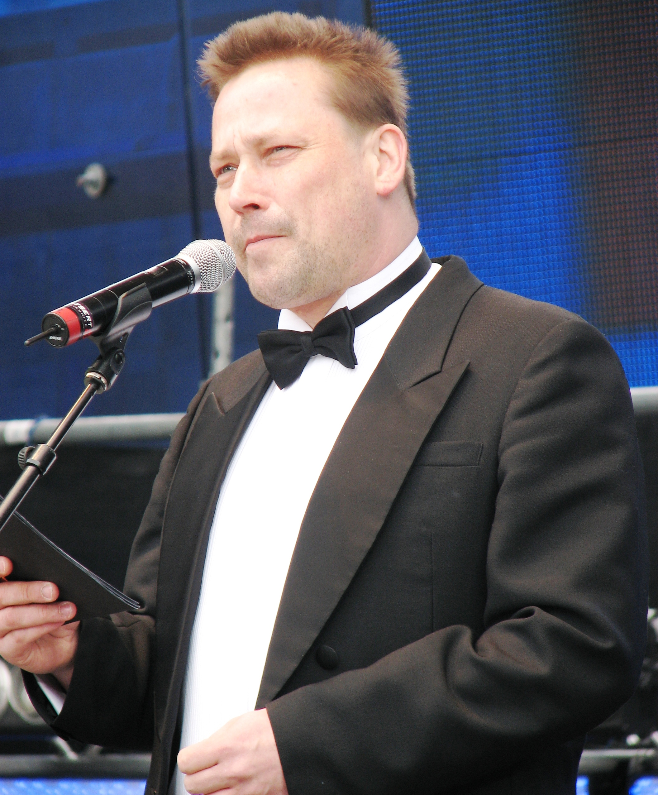 Üllar Saaremäe in Big Slam